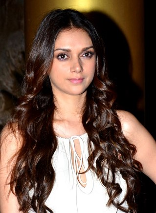 Aditi Rao Hydari at Richa Chadda's birthday celebration